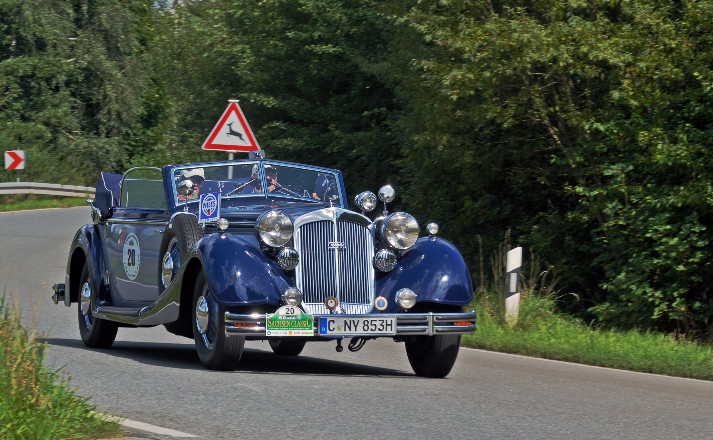 Horch 853 from 1937 during the Saxony Classic Rallye 2010